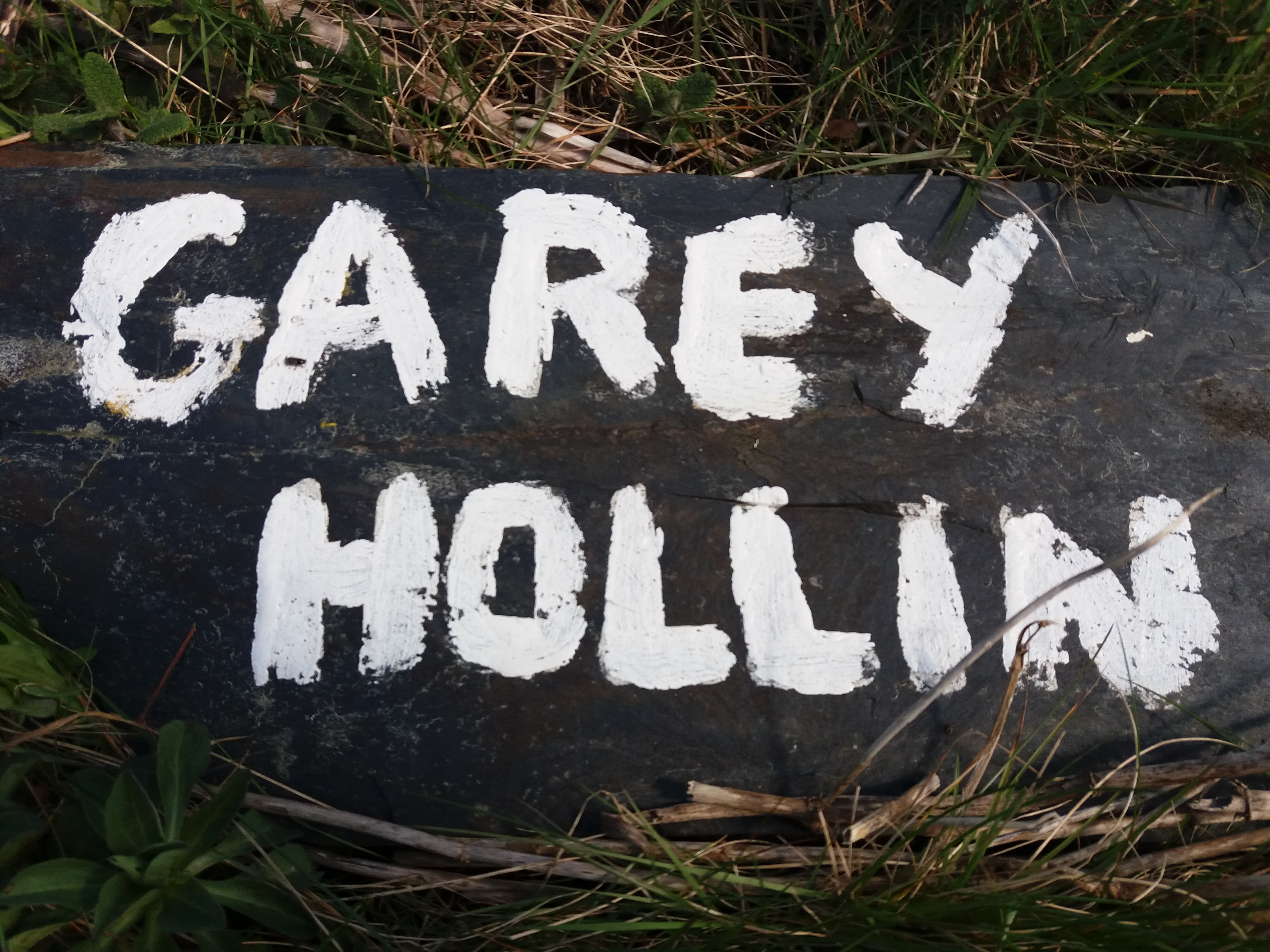 Gaelg: Boayl va Sage beaghey ayn